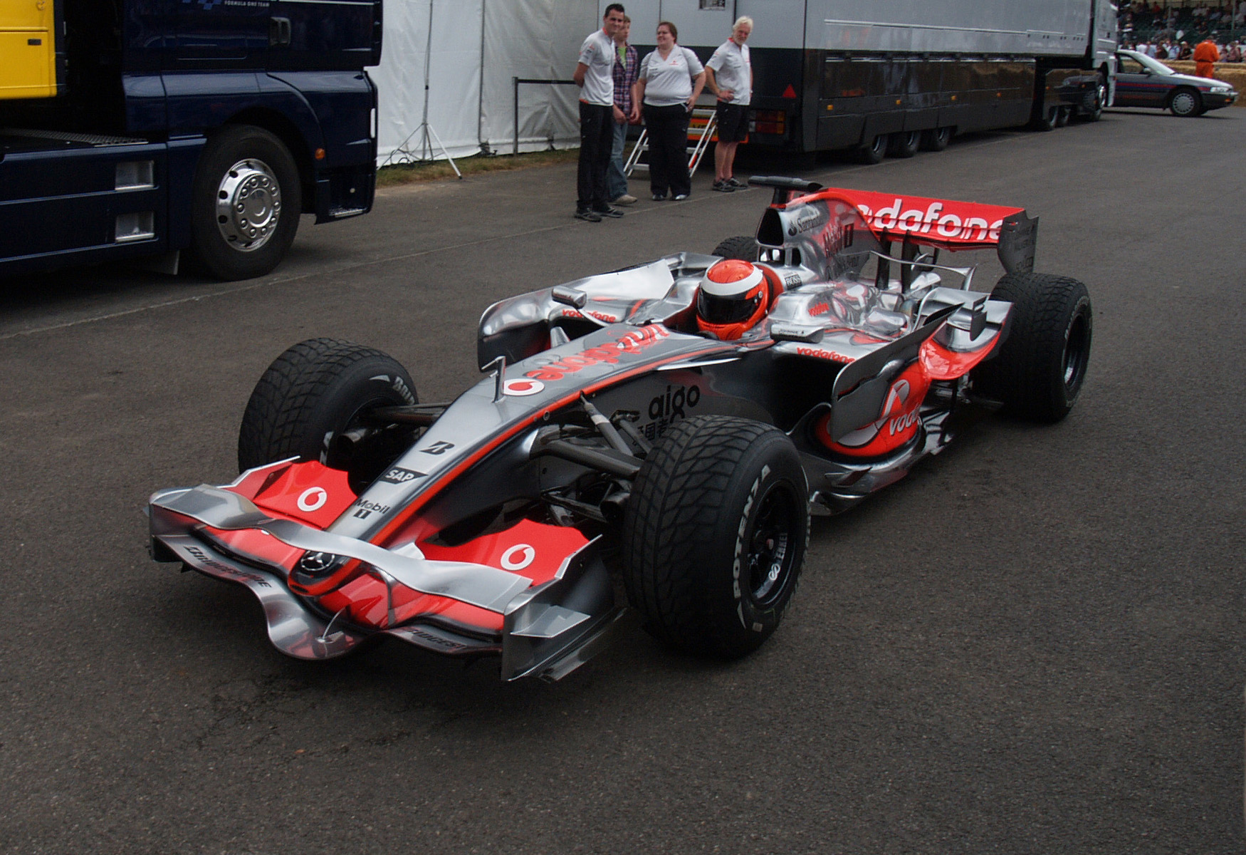 Chris Goodwin, McLaren Development Driver, driving the McLaren MP4-23 at the Goodwood Festival of Speed on Friday 3rd July 2009